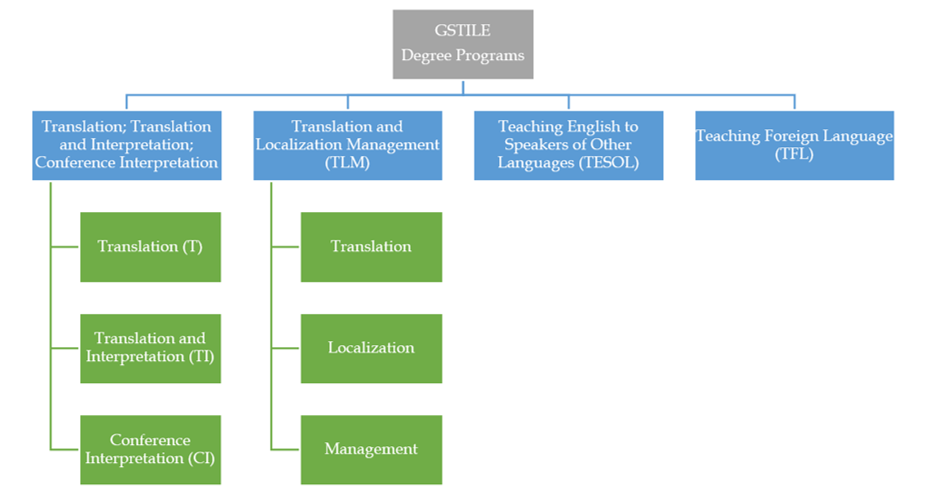 Graduate School of Translation, Interpretation, and Language Education (GSTILE) at MIIS